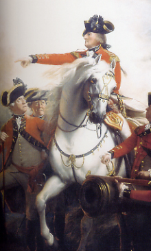 (cropped from The Defeat of the Floating Batteries at Gibraltar, September 1782)